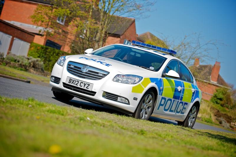 This photo shows one of our new Vauxhall Insignia response cars that are being rolled out across the force area. The first batch of 55 vehicles are being rolled out across the force by our Fleet Services department.